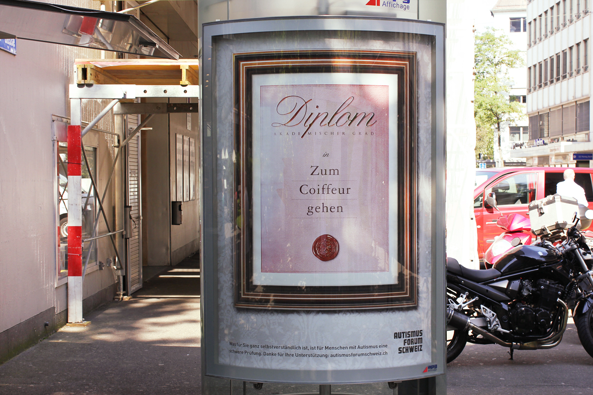 A poster saying "Going to the hairdresser - What's natural for you is difficult for autistic people. That's why they depend on your understanding and support."